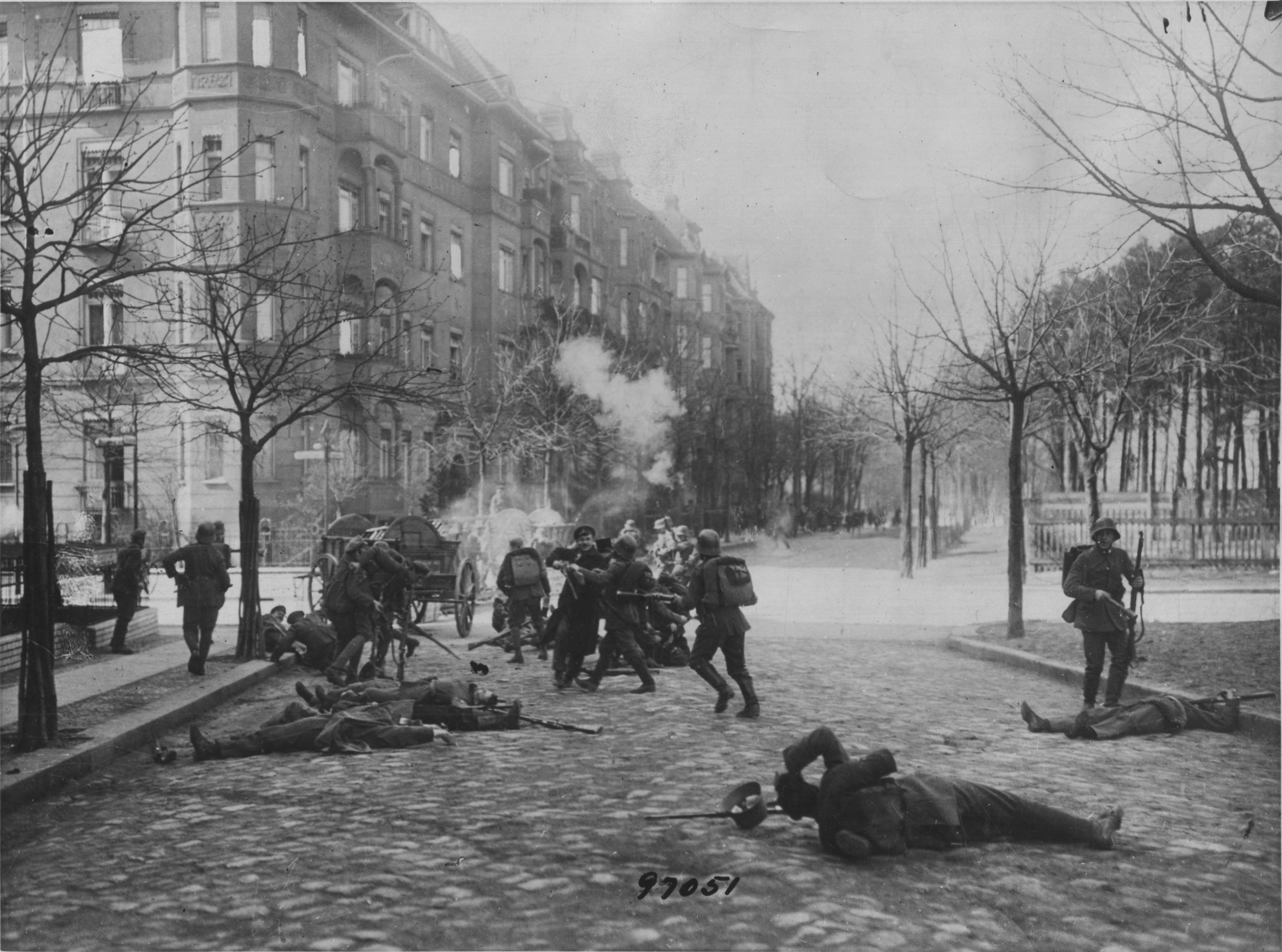 Street fights between government troops and revolutionary guards in Berlin, in September 1919. Getty Caption:"Street fighting in Berlin between Government troops and Spartacists, during the Spartacist uprising which followed Germany's defeat in World War I. "